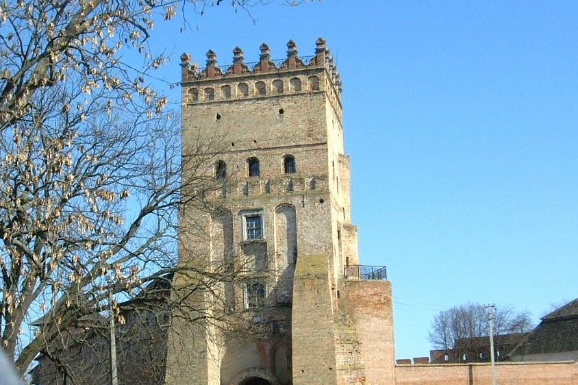 Lutsk castle